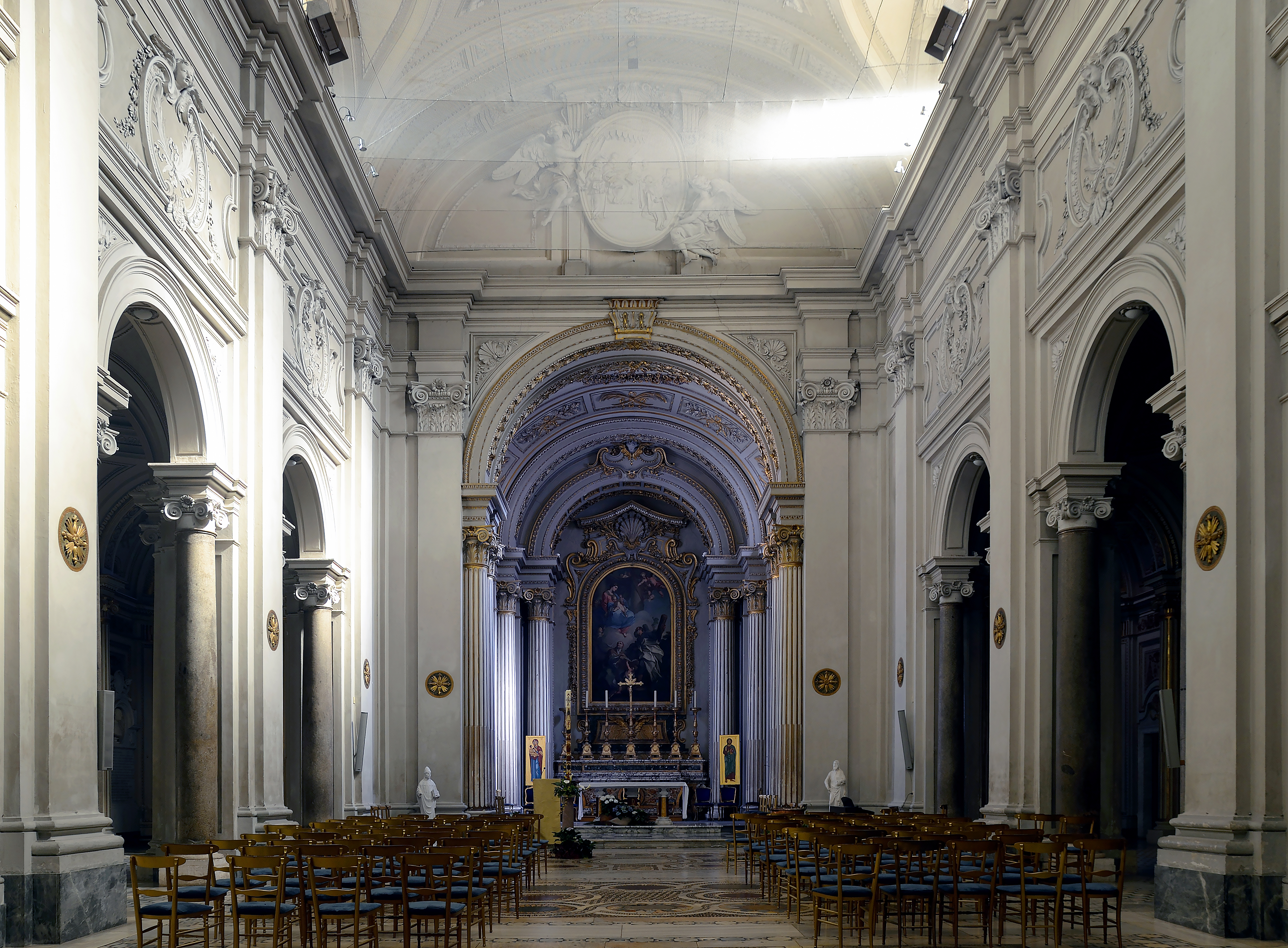 San Gregorio al Celio (Rome) - interior